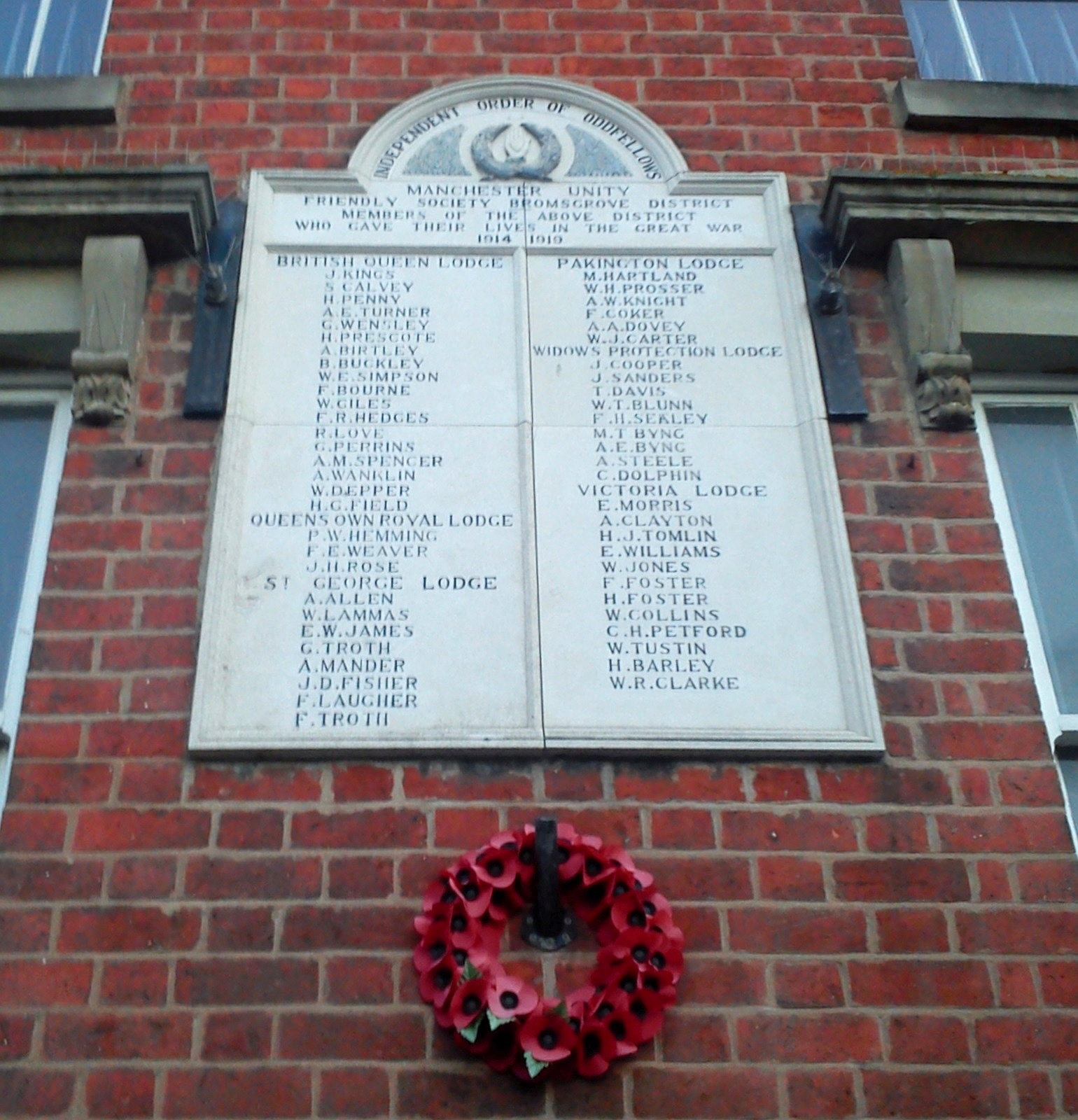 Odd Fellows war Memorial on a house in Bromsgrove high street, Worcestershire